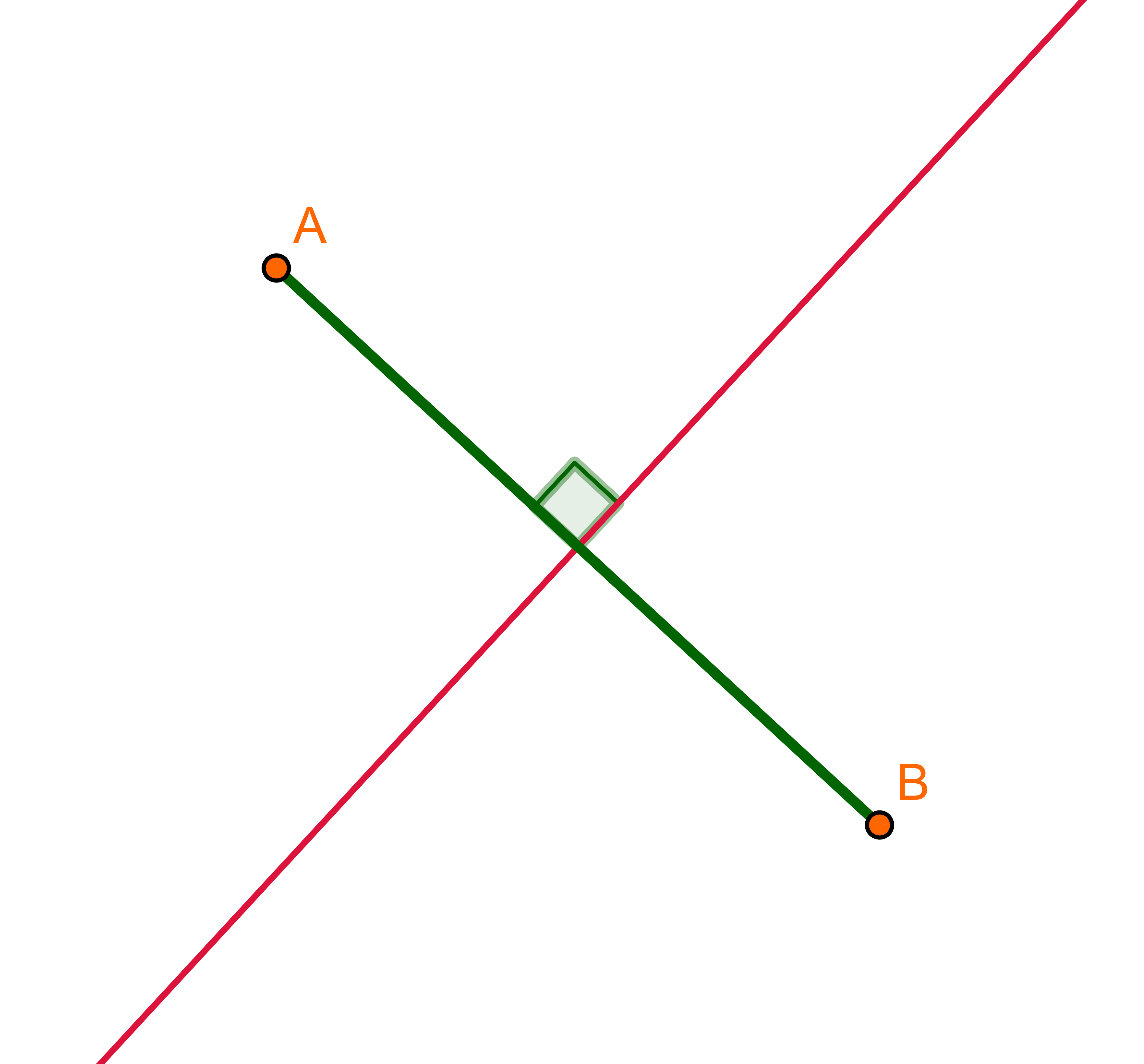 Line segment AB bisector, point of bisector has equal distance to endpoints, bisectors meets on the center of surrounding circle of triangle